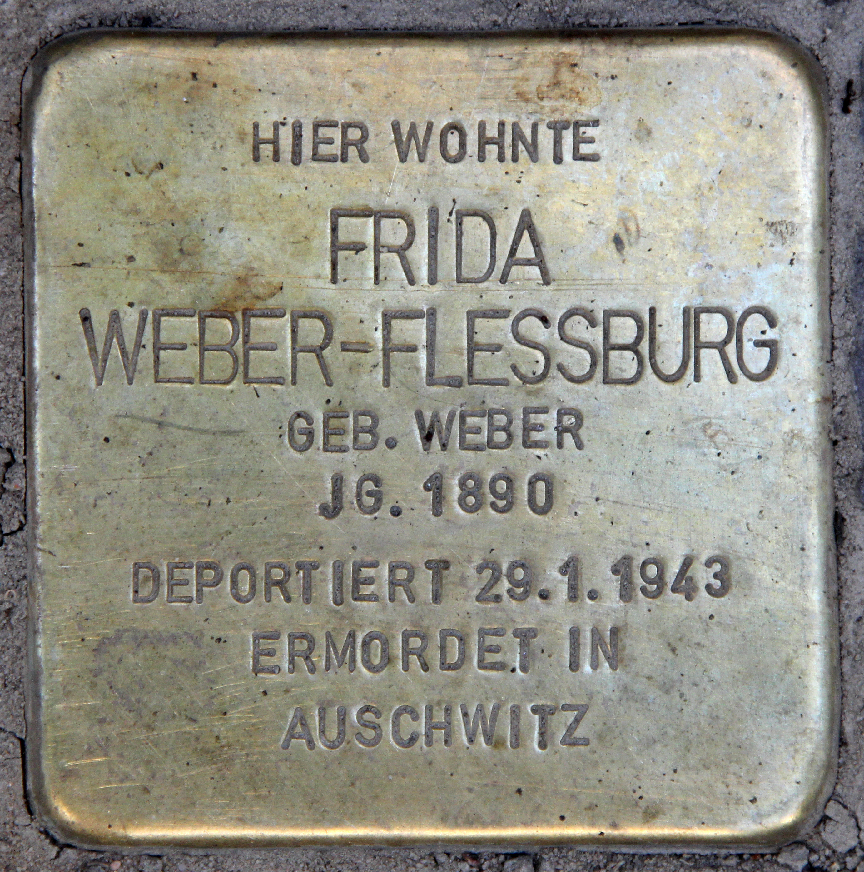 "Stolperstein" (stumbling block), Frida Weber-Flessburg, Hektorstraße 3, Berlin-Halensee, Germany